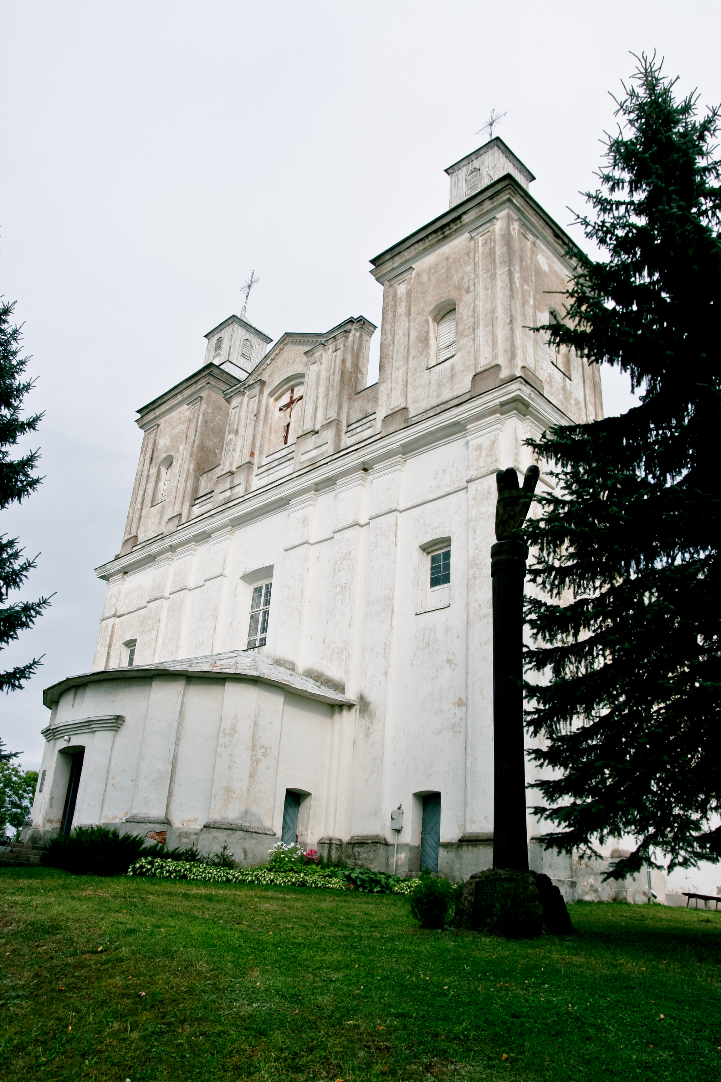 Church in the town of Rudamina in Lithuania